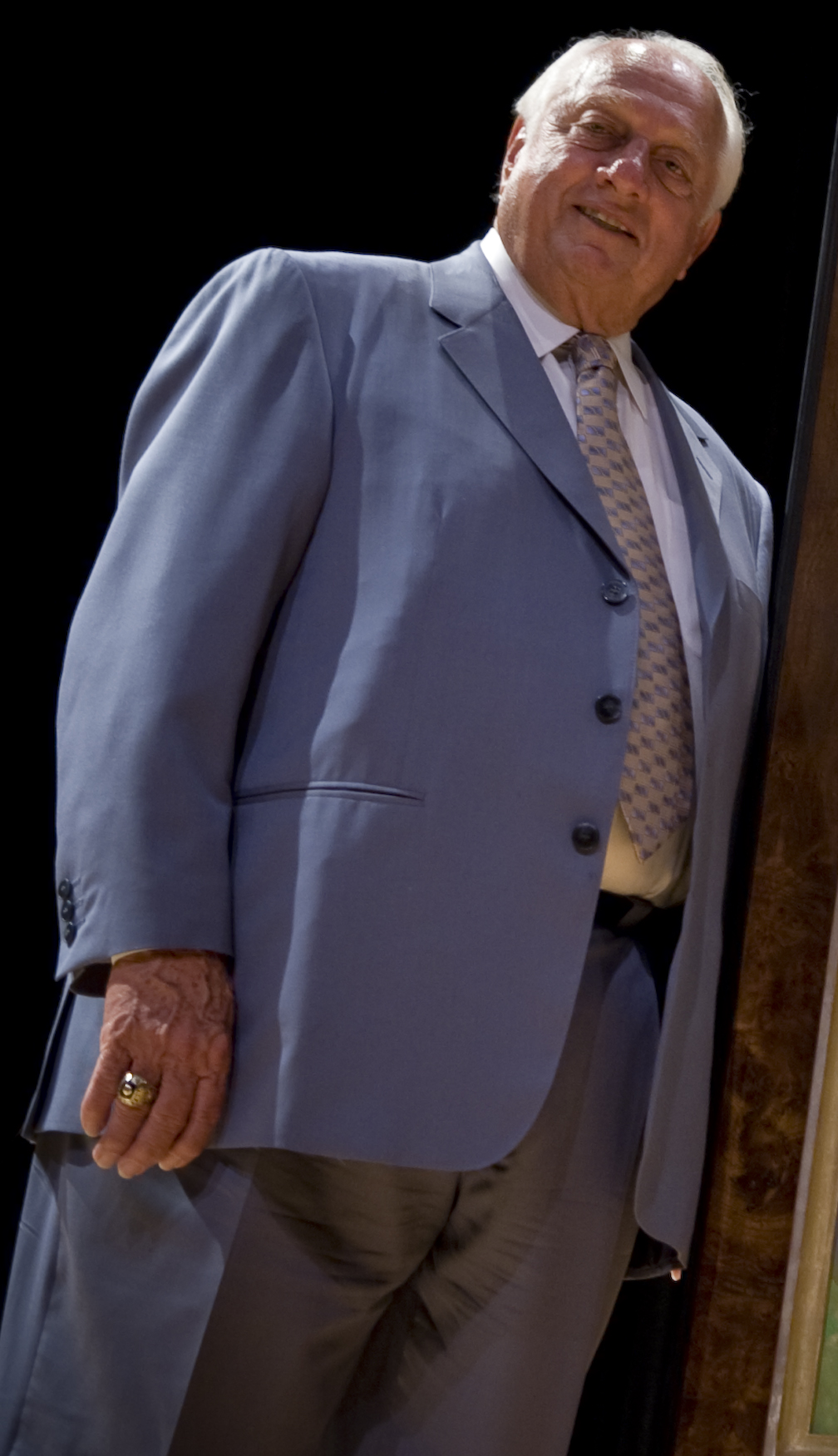 Baseball Hall of Fame inductee and former Los Angeles Dodgers manager Tommy Lasorda poses with his portrait (not shown) Sept. 22, 2009, in Washington, D.C.